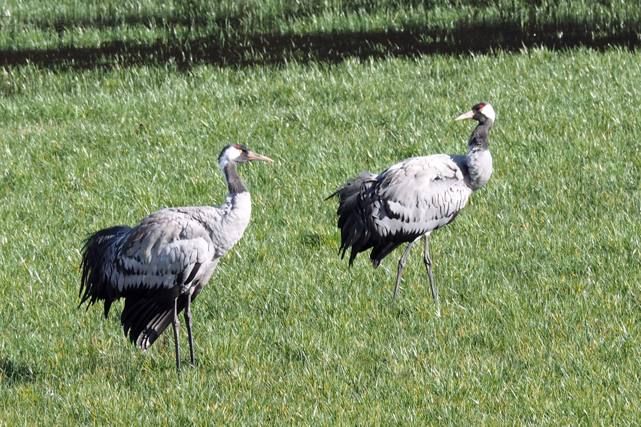 Two Common Cranes foraging for food in the vicinity of Oldendorf, Lüneburg Heath, Lower Saxony, Germany